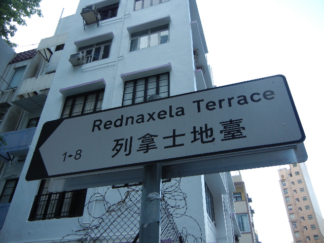 Rednaxela Terrace, Central District, Hong Kong